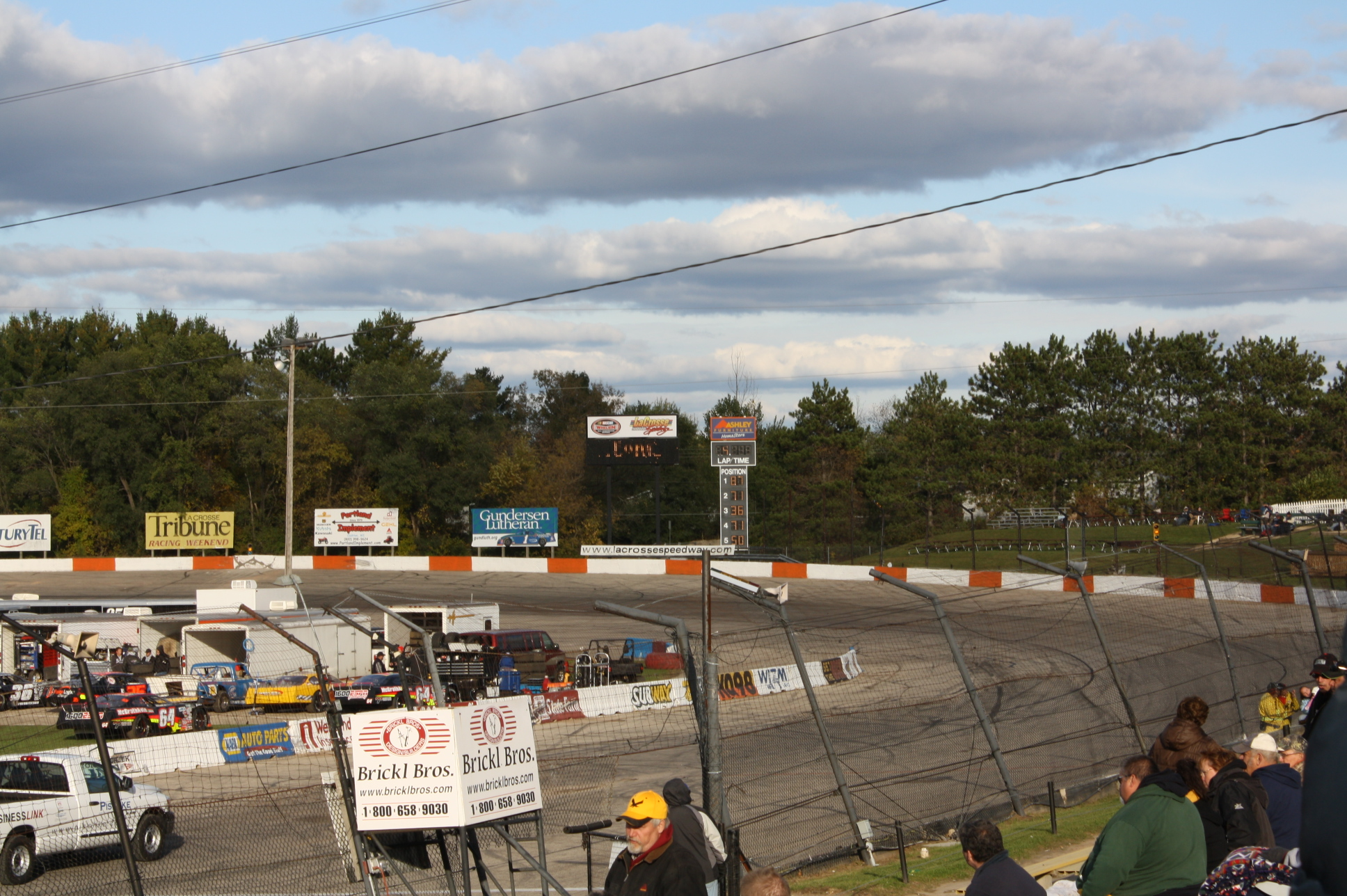 Turn 1 at the LaCrosse Fairgrounds Speedway.